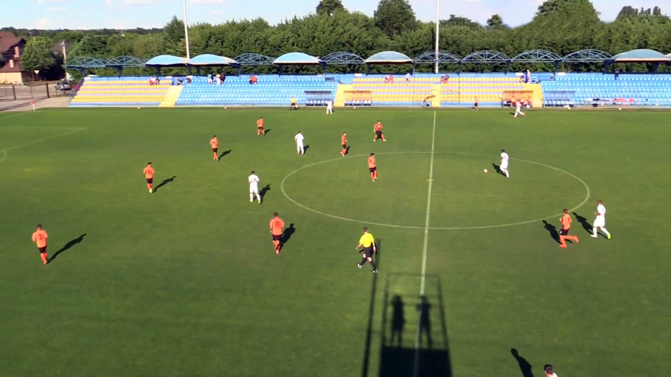 Kniazha Arena in Shchaslyve, Boryspil Raion, Kyiv Oblast, Ukraine